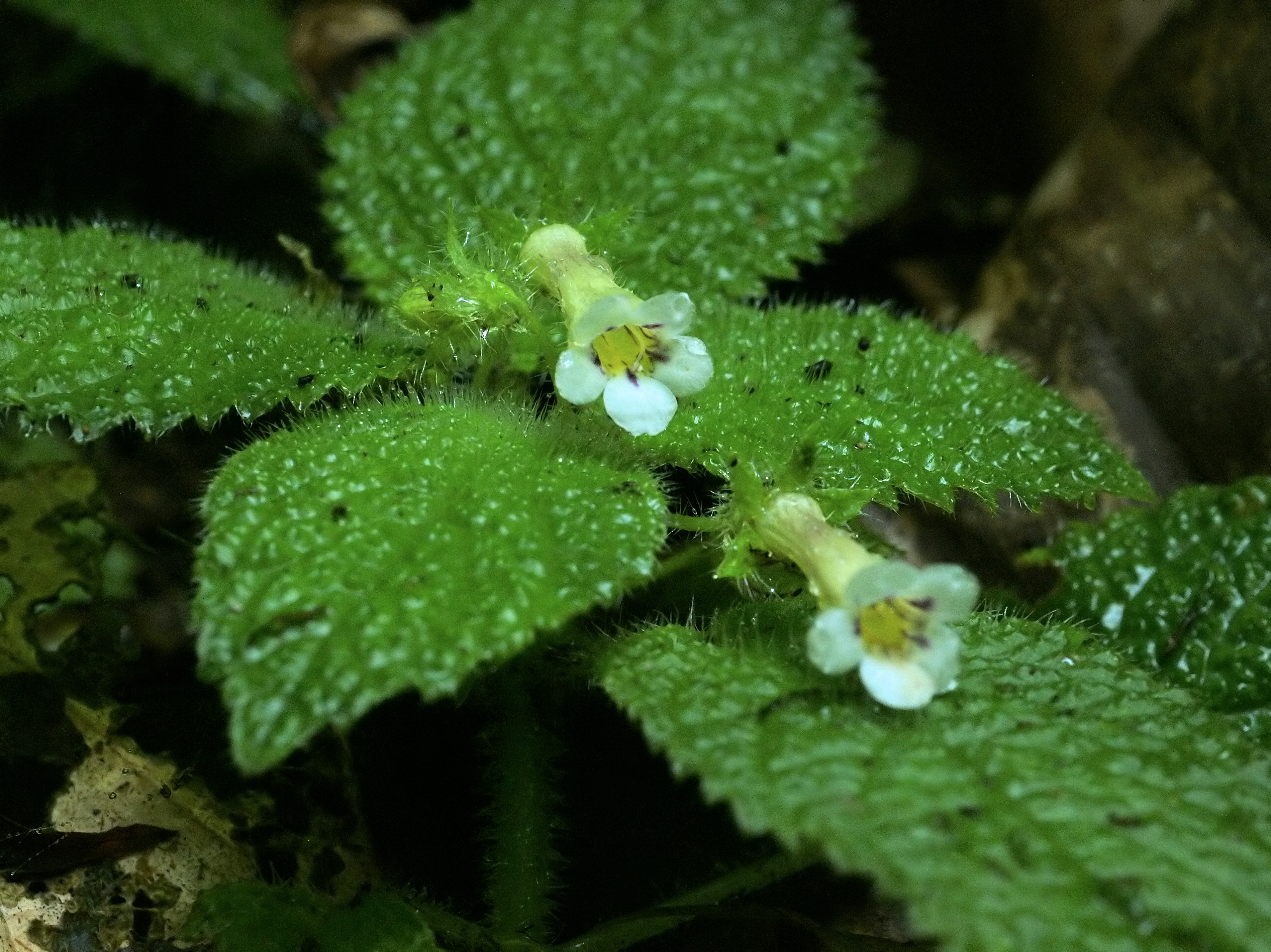 Flowers at Puentes colgantes close to Arenal, Costa Rica